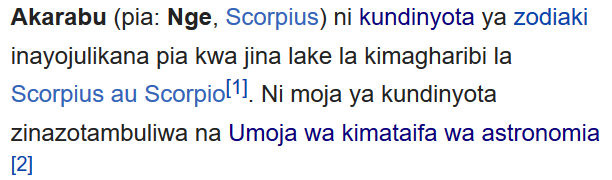 screenshot of text with footnotes from swwiki Akarabu (kundinyota) showing placement of footnote numbers in text in wikipedia Kiswahili: picha ya matini ya makala ya swwiki "Akarabu (kundinyota)" inayoonyesha namba za tanbihi yaani maelezo mwishono mwa makala yatakayothibitisha maelezo katika matini